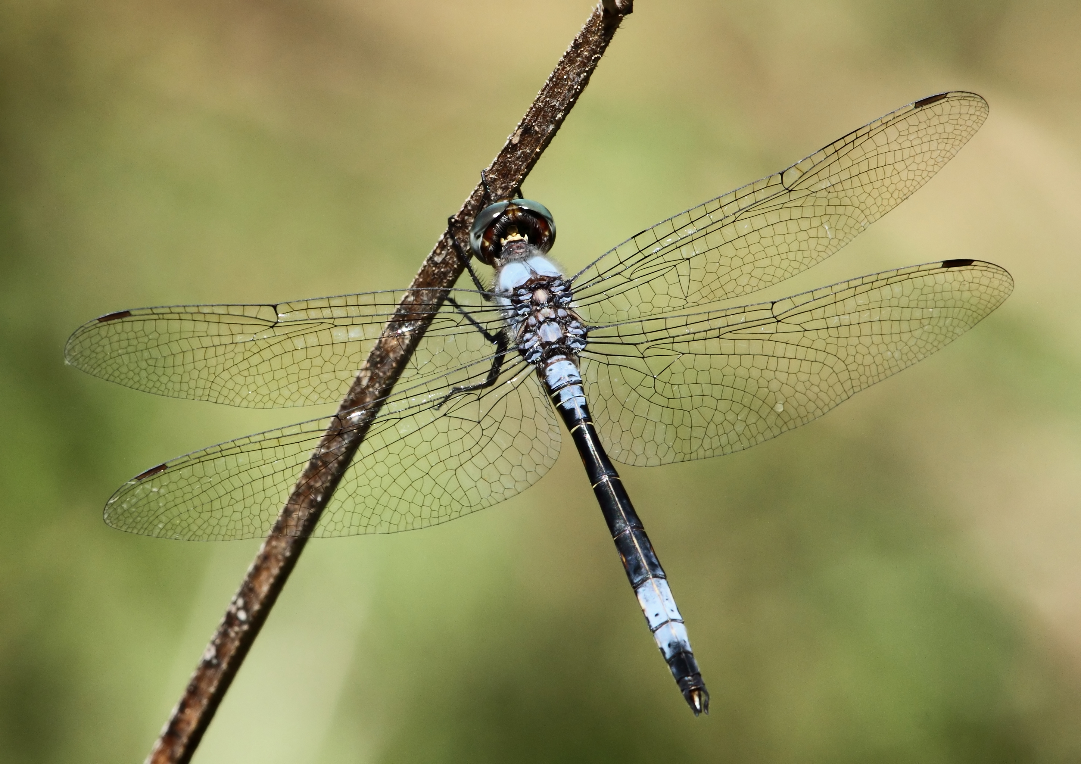 Blue Cascader at Nagle Dam and Game Reserve